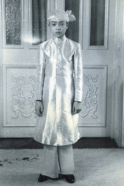 His Royal Highness Prince Hso Khan Pha of Yawnghwe.